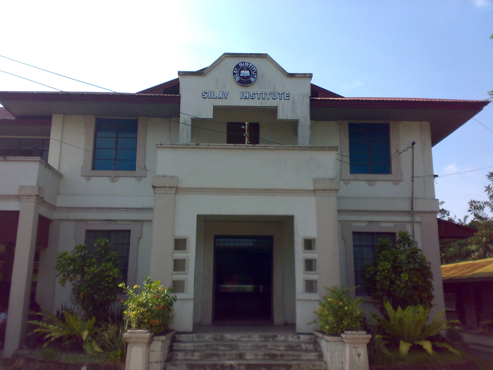 Main building of Silay Institute